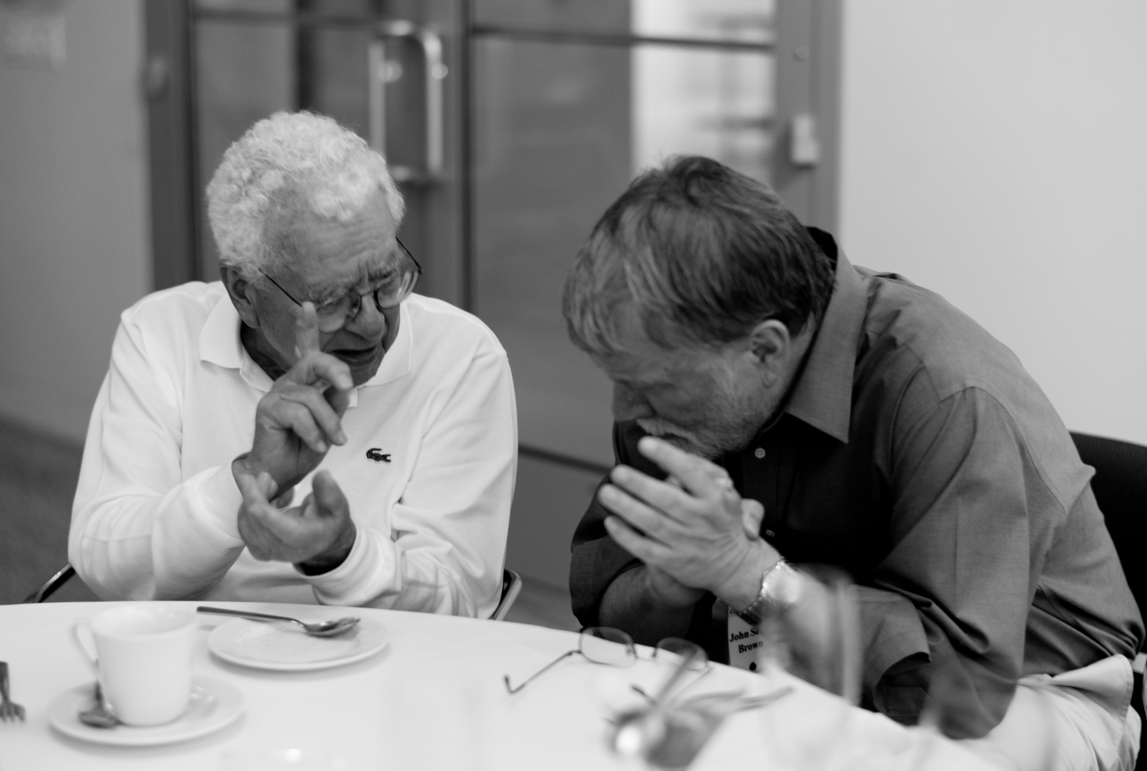 Murray Gell-Man and John Seely Brown